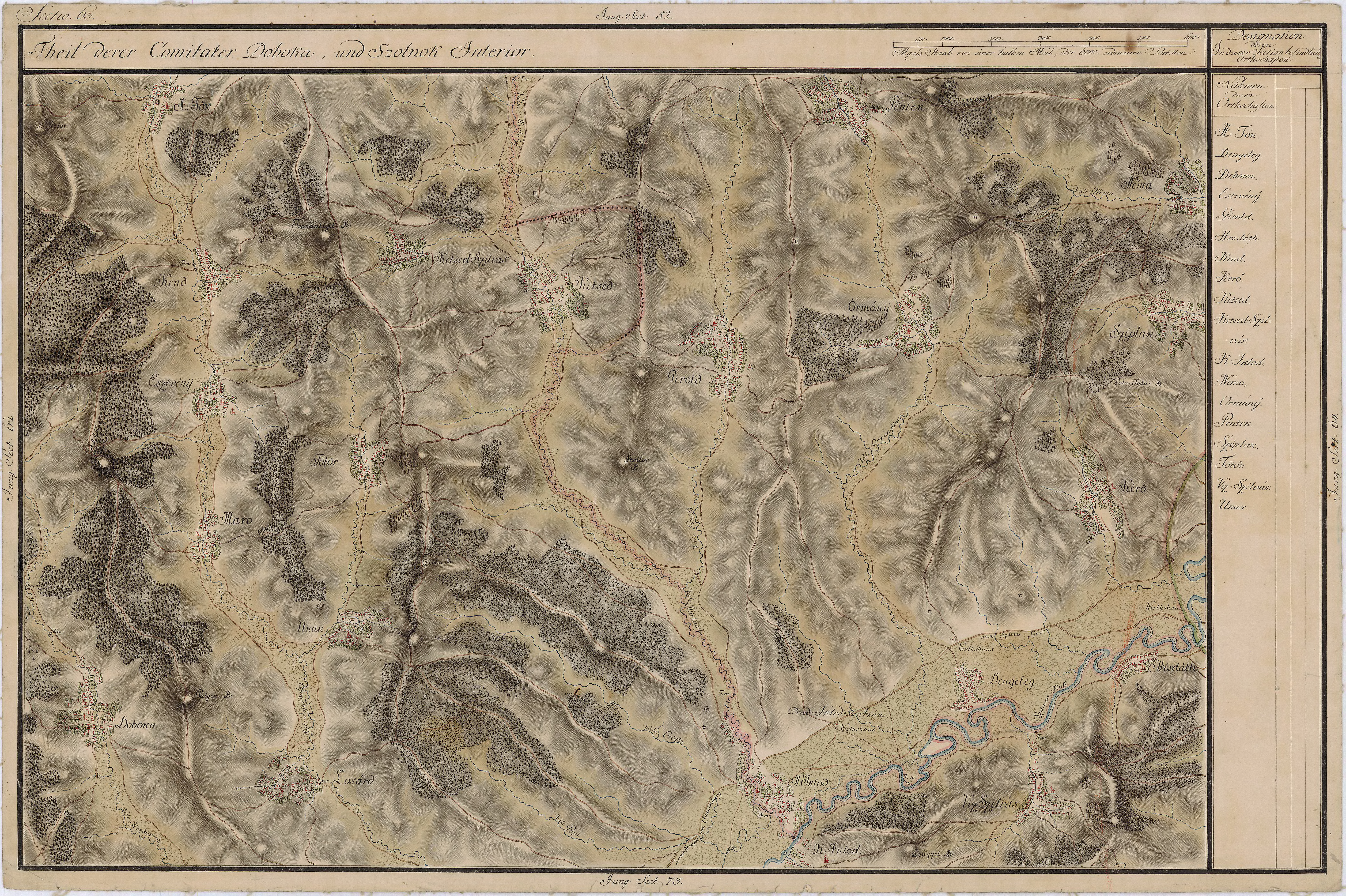 Grand Duchy of Transylvania, 1769-1773. Josephinische Landaufnahme pg.063